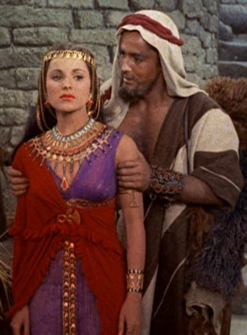 Cropped screenshot of Debra Paget and John Derek from the trailer for the film The Ten Commandments.